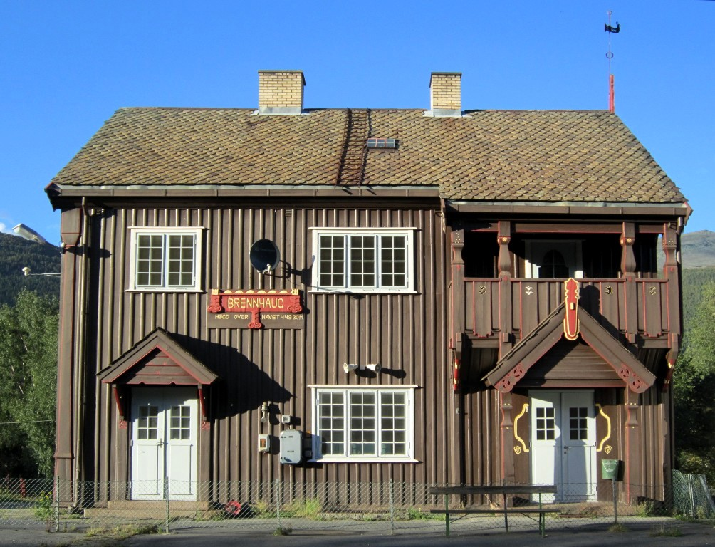 Brennhaug station on the Dovre line